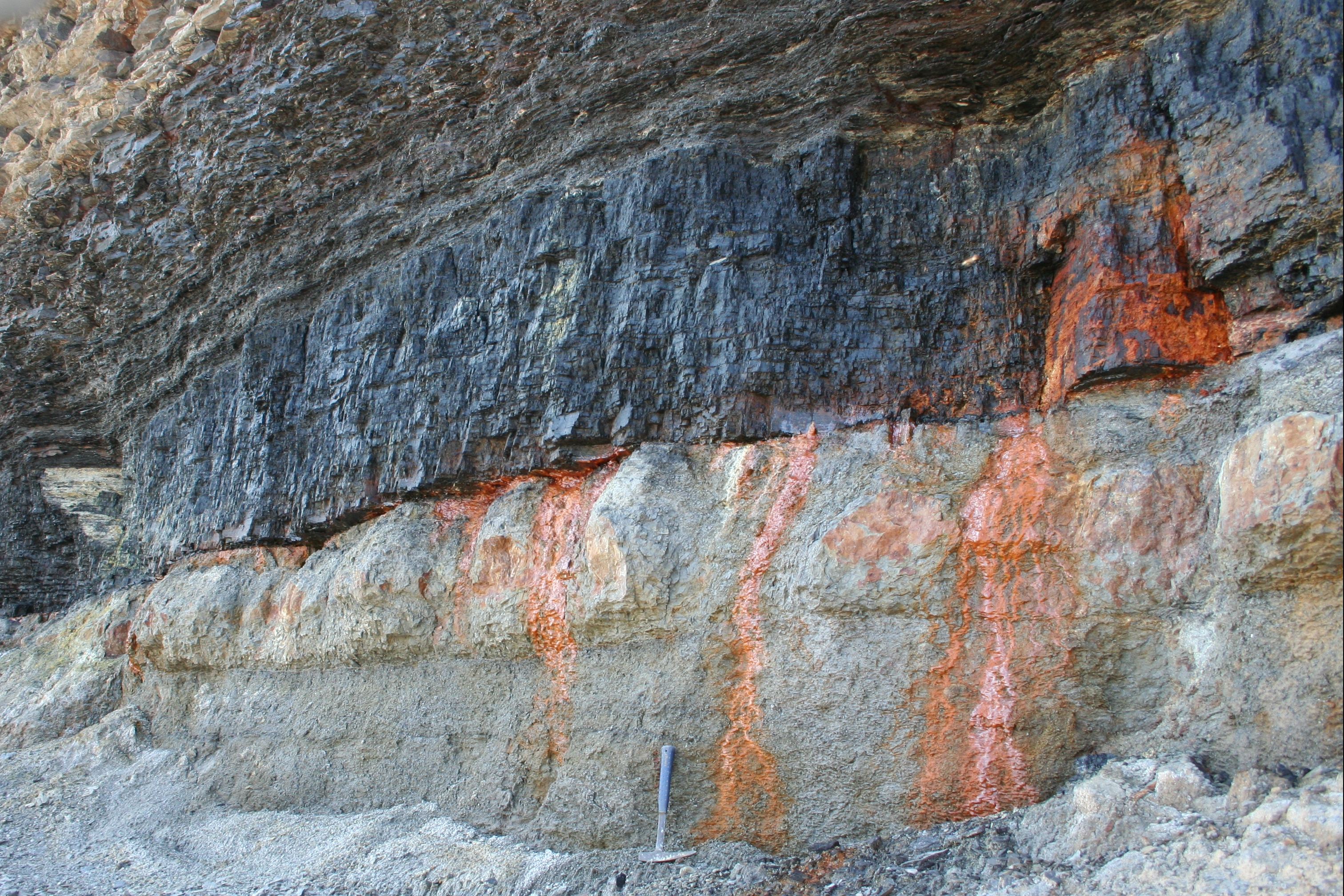 Coastal exposure of the Point Aconi Seam (bituminous coal; Pennsylvanian) exposed at Point Aconi, Nova Scotia. Coordinates are approximate.